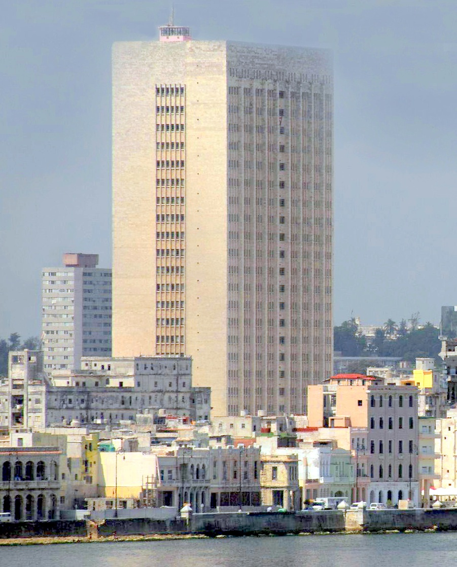 Hermanos Almejeiras Hospital